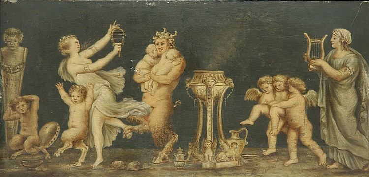 CARL BECHON. A BACCHANALE SCENE, OIL ON PANEL, SIGNED AND DATED BY CARL BECHON